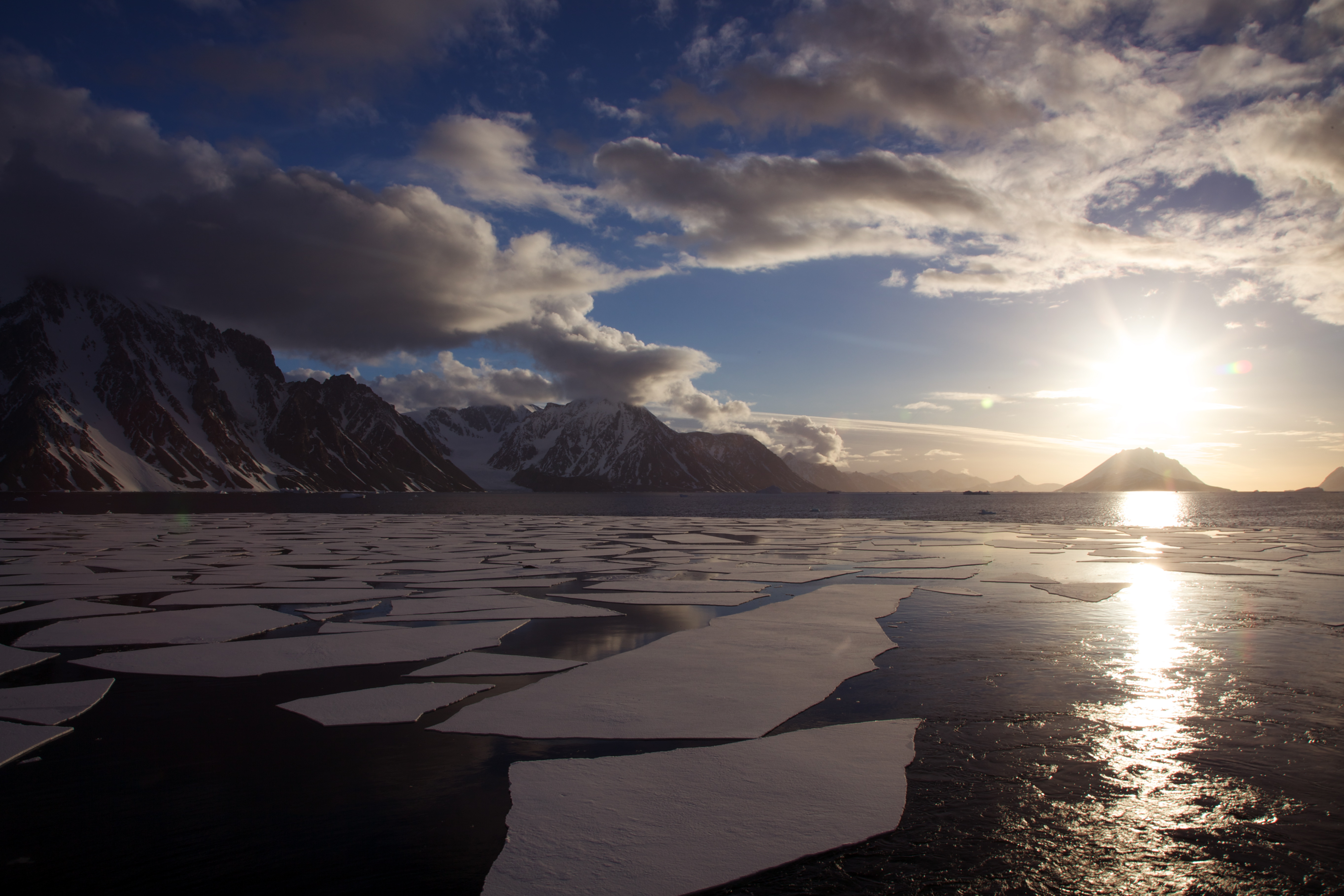 Midnight sun in Antarctica on Christmas Day, 2008.